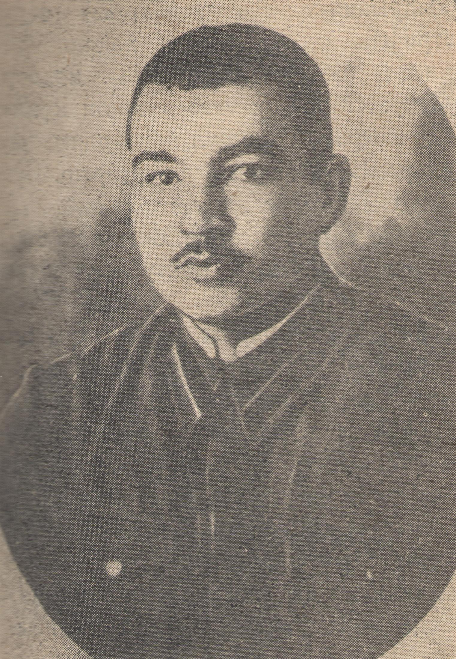 Mehdi Huseynzade in 1941 in Tbilisi military school